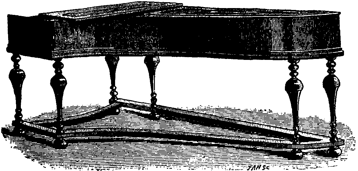 Silbermann Forte Piano; Stadtschloss, Potsdam